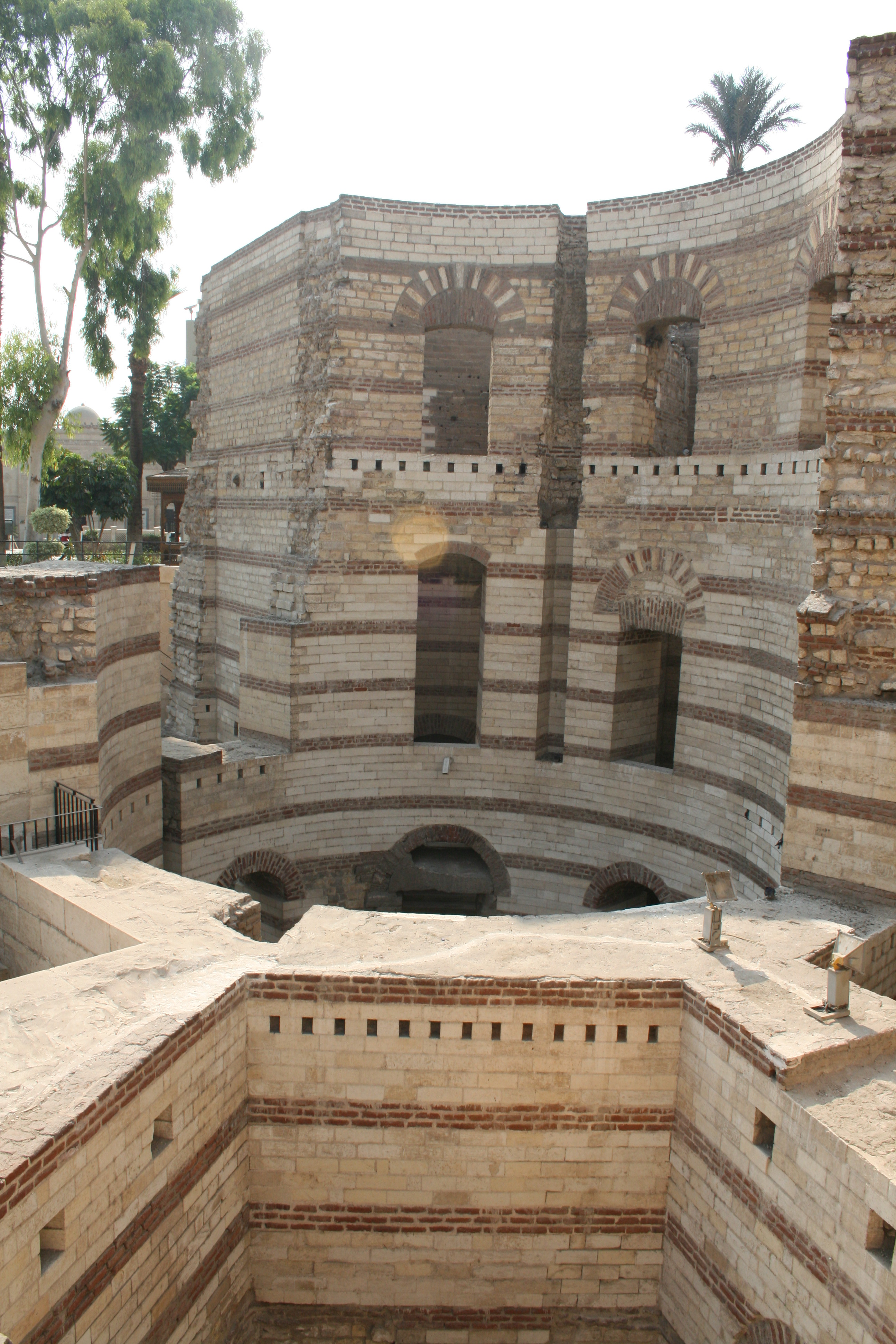 Babylon Fortress (Roman Tower), Old Cairo, Egypt